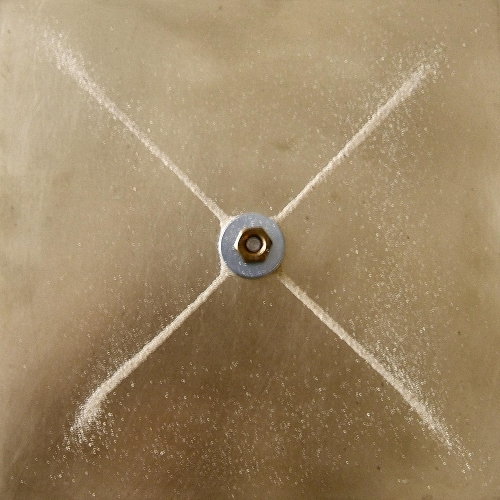 Photo of a Chladni pattern